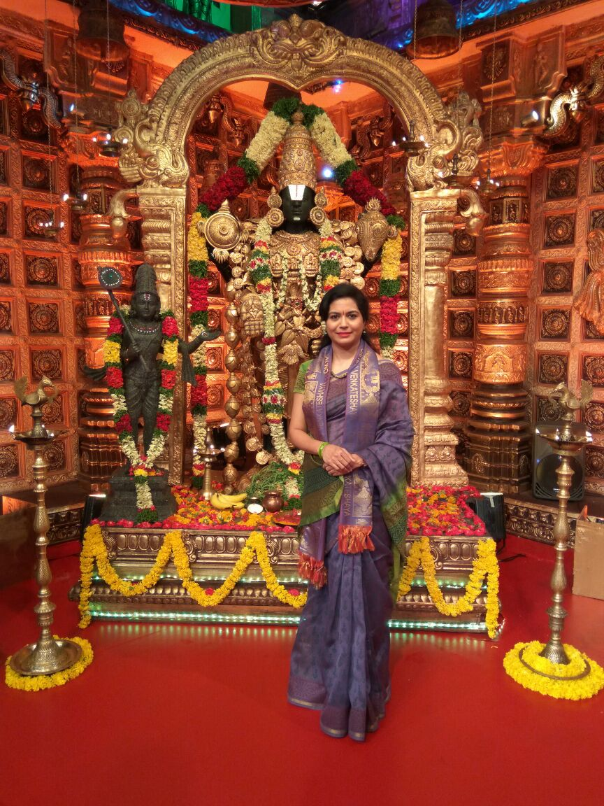 Annamayya Paataku Pattaabhishekam